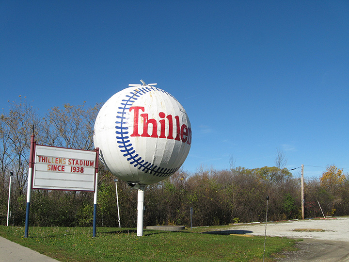 A 2011 photo of the giant baseball outside of Thillens Stadium in Chicago, IL. The ball was demolished in June 2013.